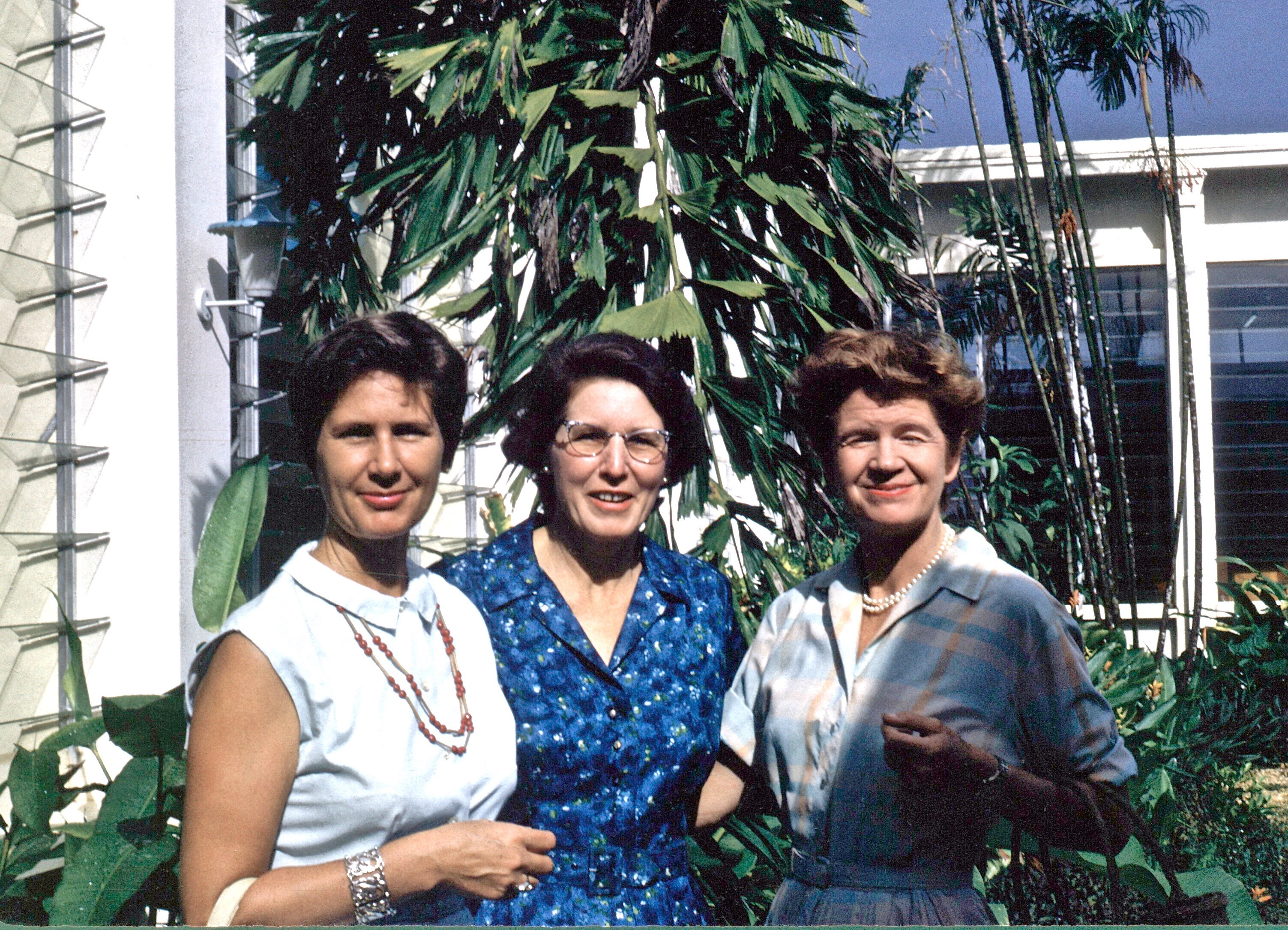 This was taken at Piarco Airport, Trinidad in 1963 when the Hills were returning to Canada